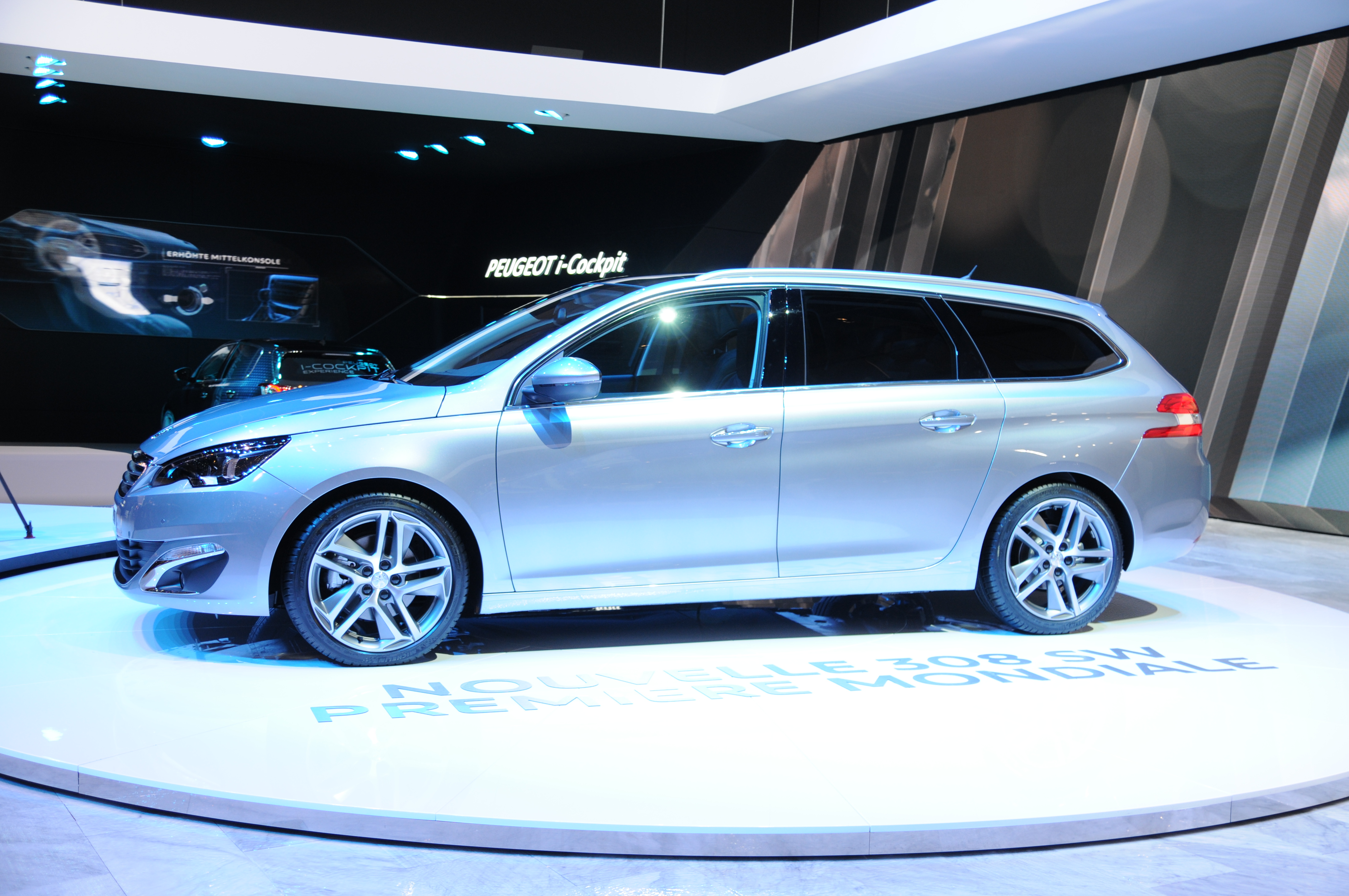 Geneva Motor Show 2014 (photo taken on the first press day)